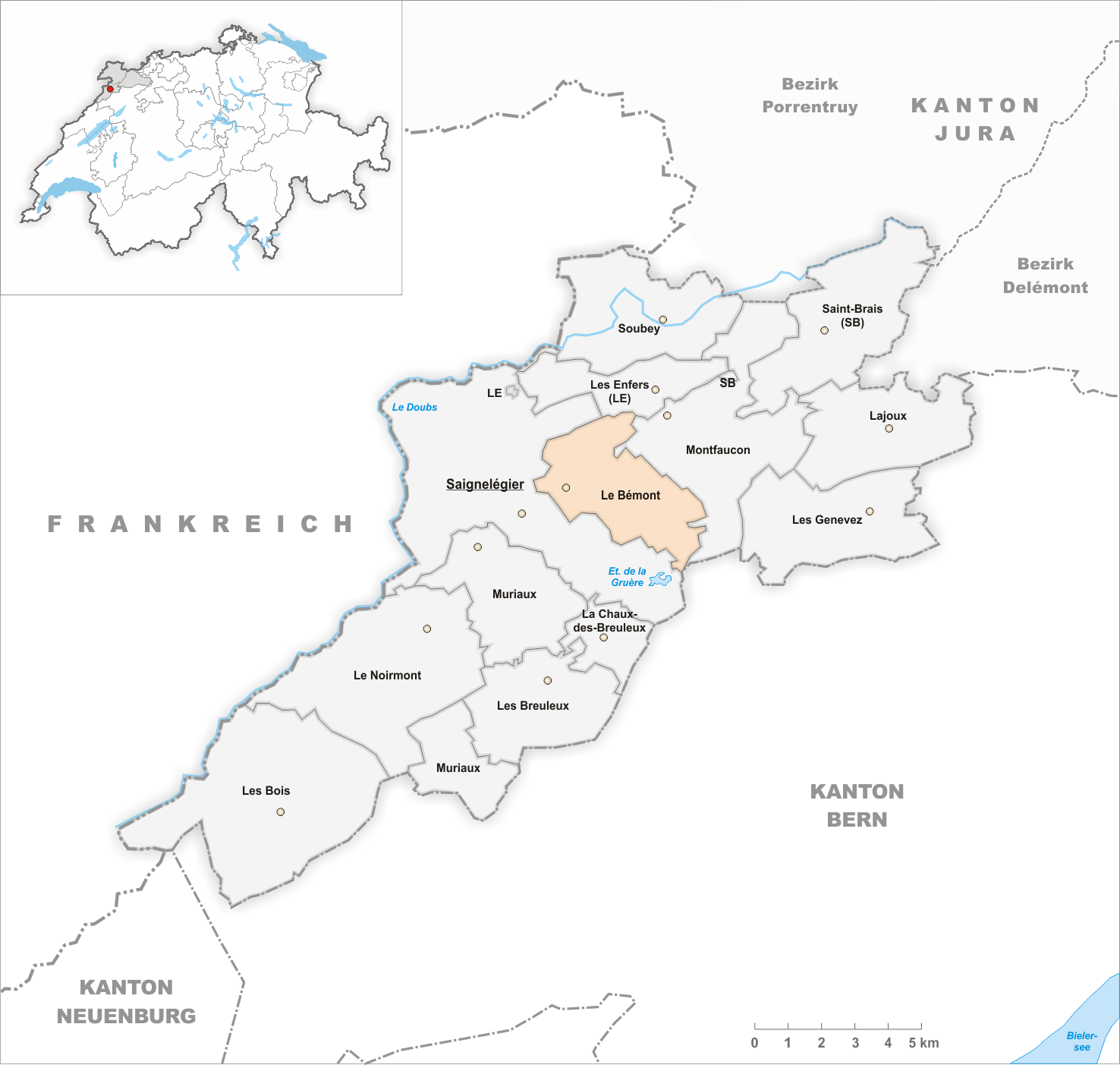 Municipality Le Bémont